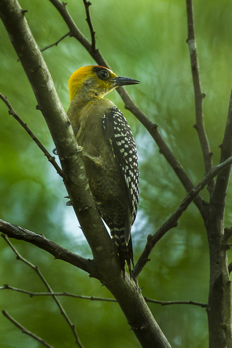 Golden-cheeked Woodpecker - Mexico_S4E8402